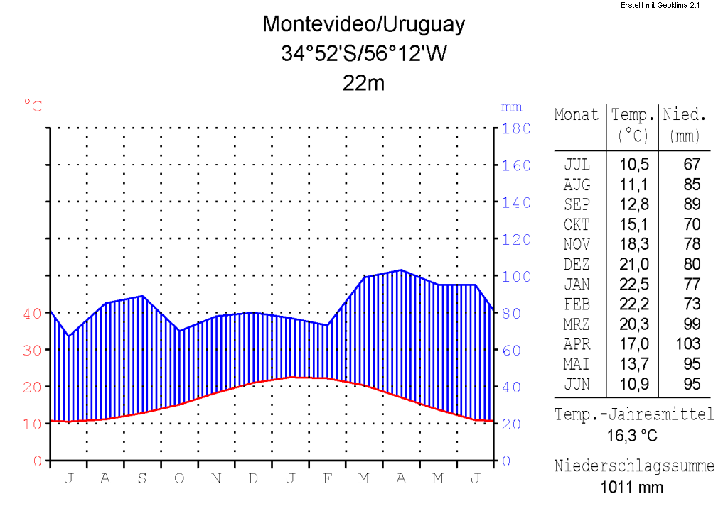 climate chart in the format by Walter and Lieth, metric, °Celsisus and millimeters, made with Geoklima 2.1